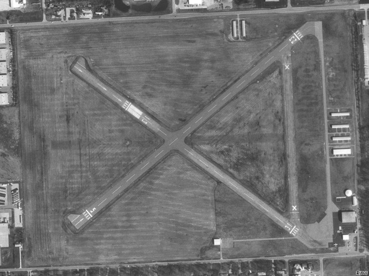 Aerial image of Smith Field, an airport in Fort Wayne, Indiana, United States.